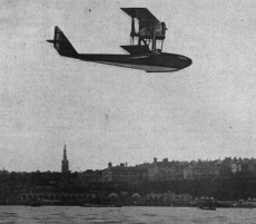 Italian SIAI S.13 racing flying boat